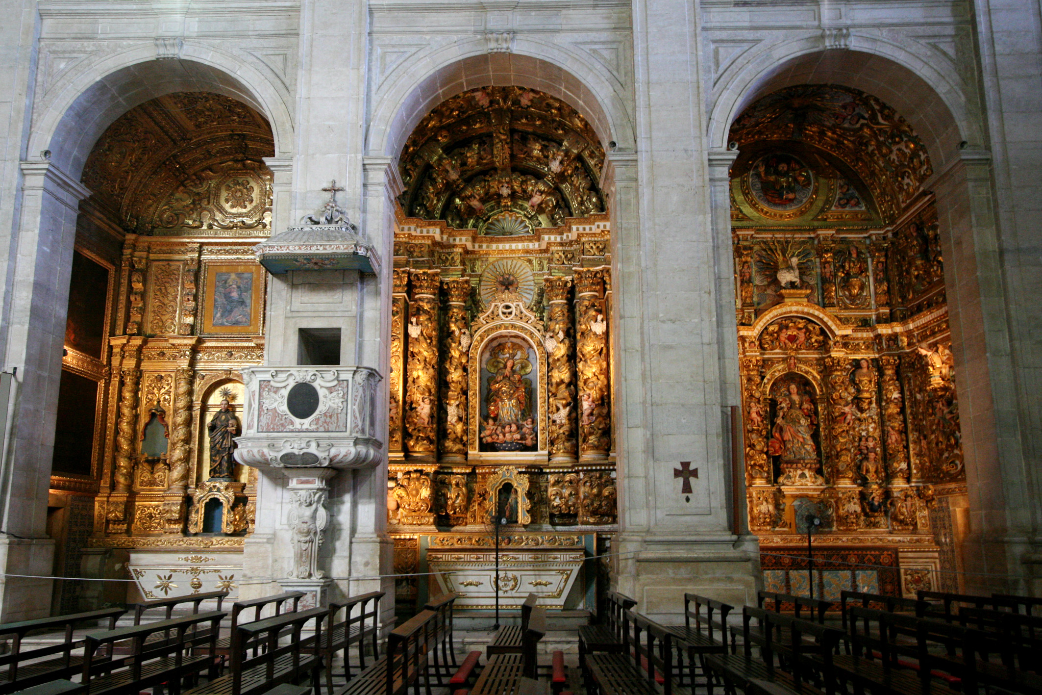 Chapel of Saint Francis Borgia, pulpit, Chapel of Our Lady of the Conception, Chapel of Saint Ursula, Catedral Basílica de Salvador, Bahia, Brazil.